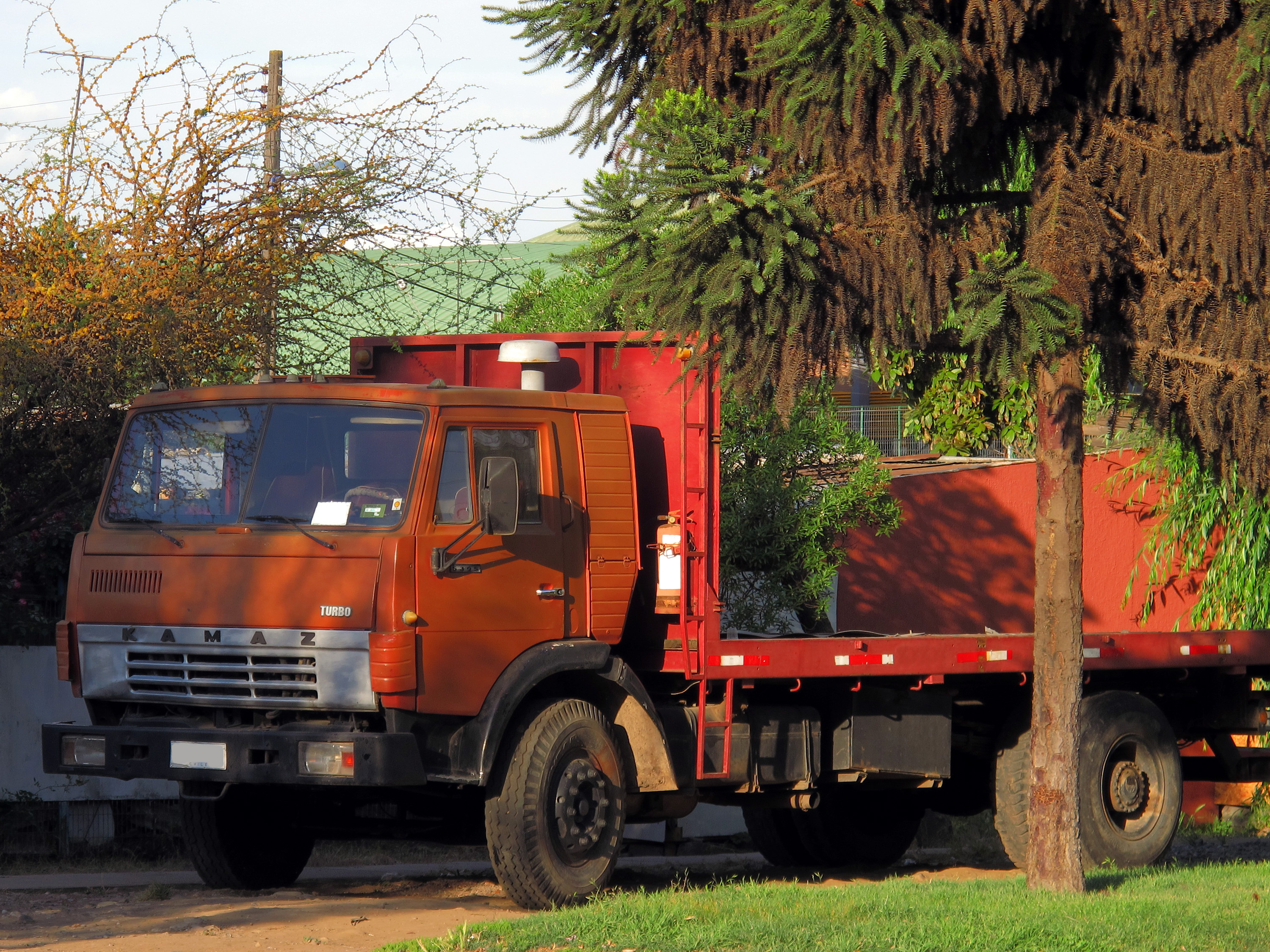 KamAZ-5325 in Chile